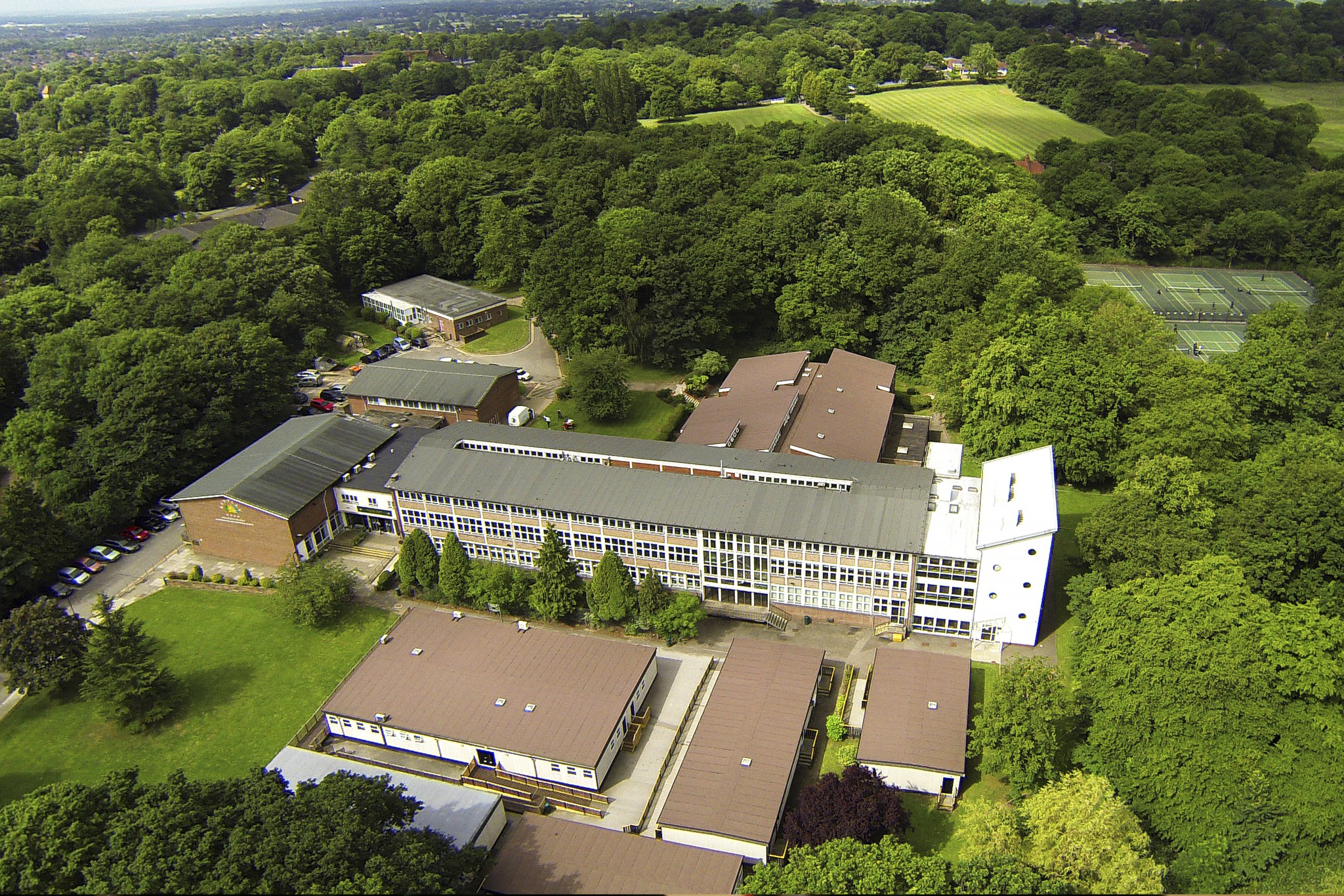 Arial View Bentley Wood